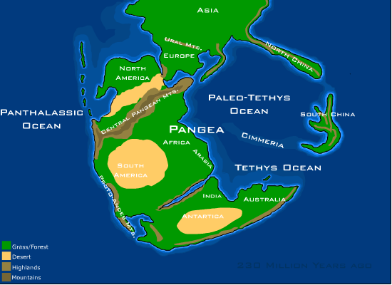 Physical map of the supercontinent Pangaea, 237 million years ago